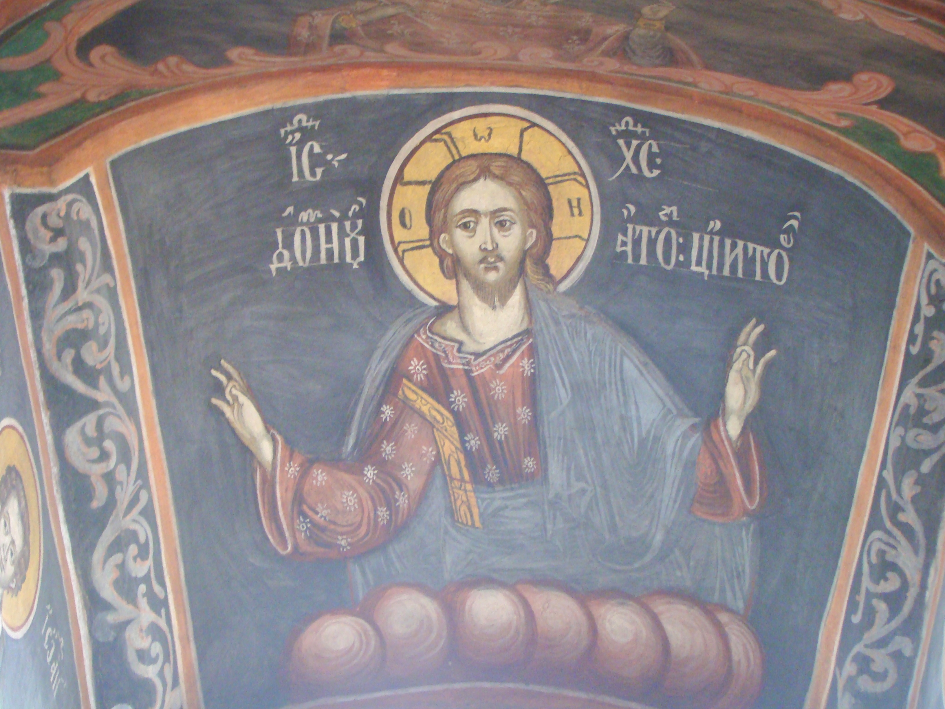 Saint John the Baptist's church in Caransebeș, Caraș-Severin county, Romania